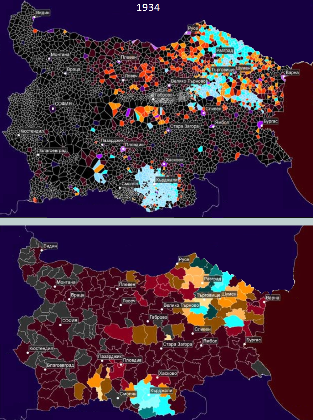 Distribution of the ethnic Turks in Bulgaria according to the 1934 census. Their frequency descends from blue color, to orange/red and purple and from their lighter to darker shades.